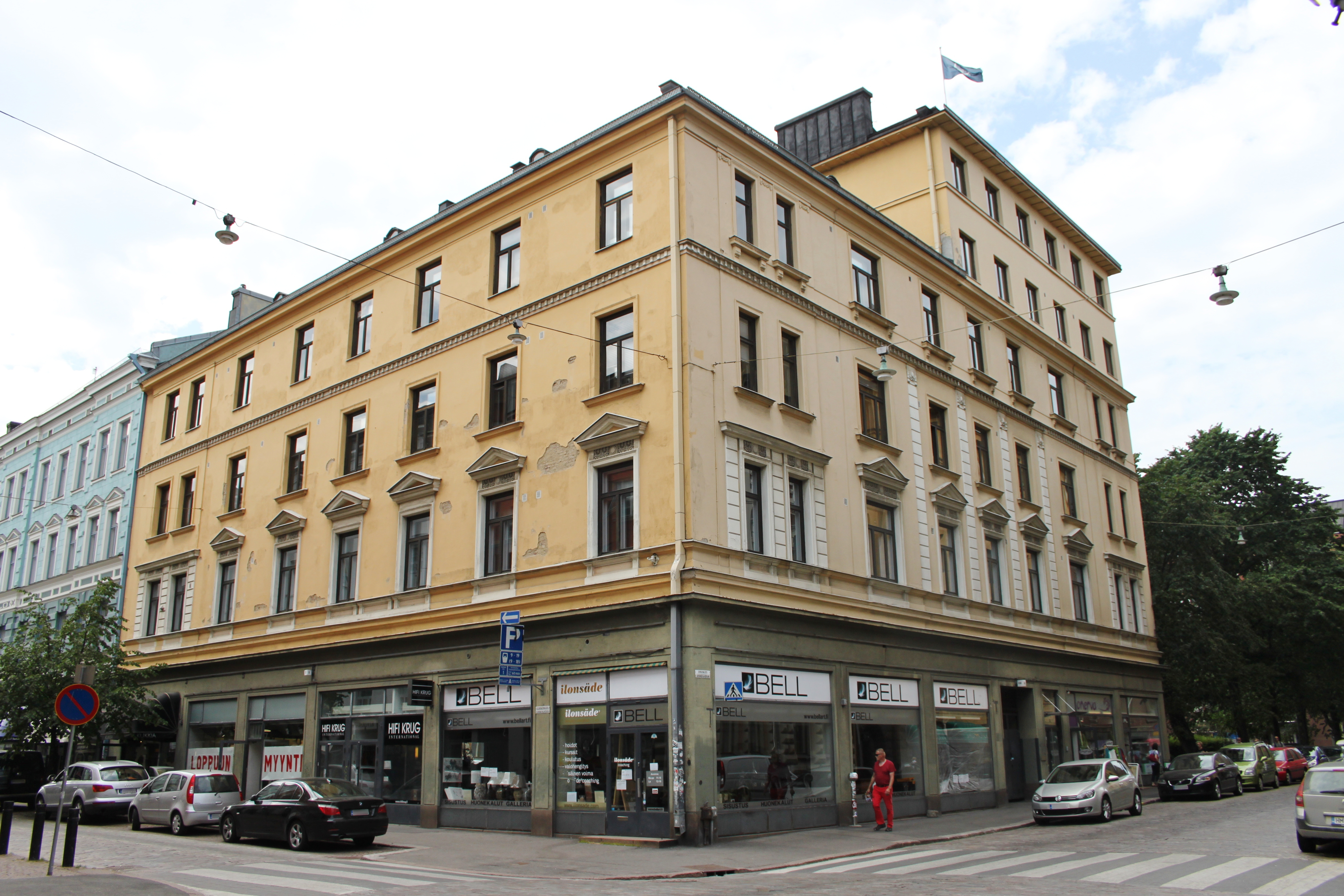 Eerikinkatu 5 / Annankatu 28, Helsinki. Architechts: Kiseleff & Heikel. Built 1881.